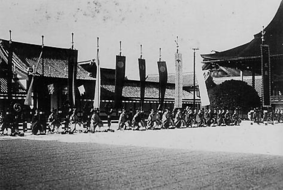 Enthronement of Emperor Showa